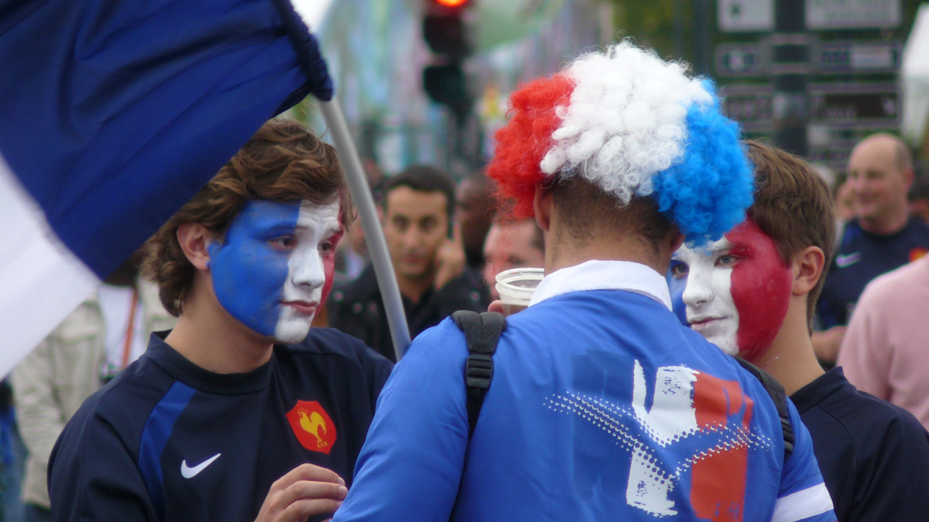 Taken before the opening ceremony and match between France and Argentina